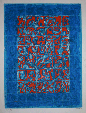 Paul Bedra: O.T., colour etching, 1997